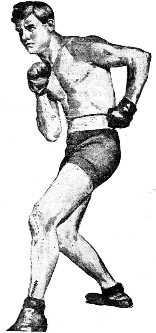 A sketch of professional boxer Al Kaufman